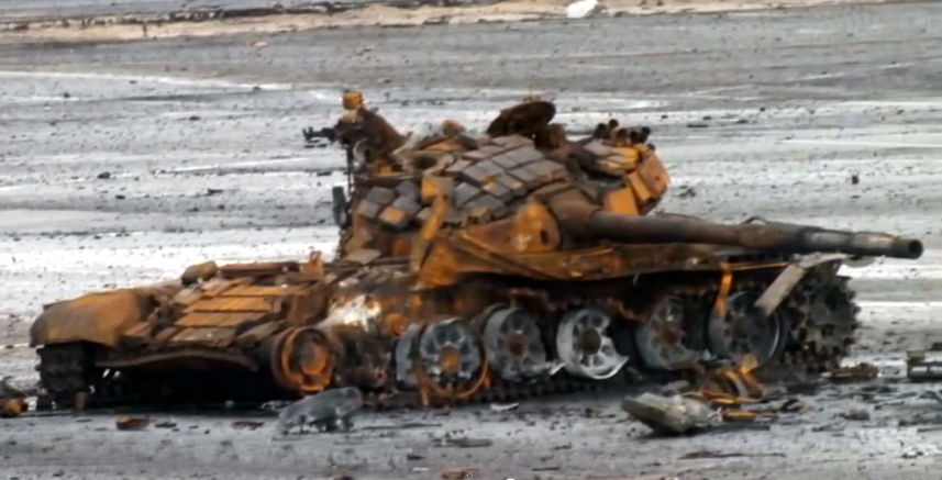 Busted tank among the ruins of Donetsk Sergey Prokofiev International Airport, December 24, 2014.